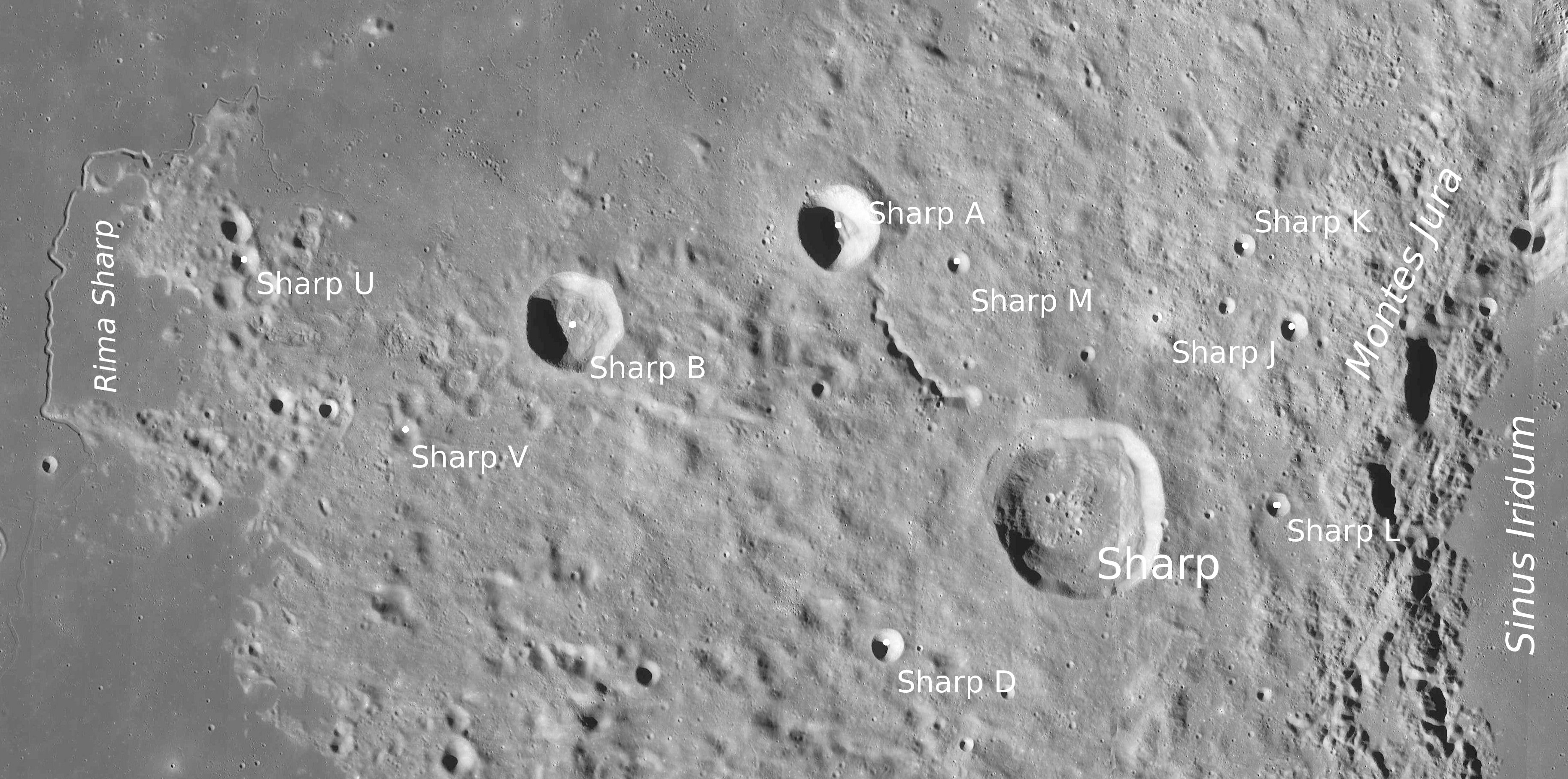 Crater Sharp with satellite features (detail of LRO - WAC global moon mosaic; Mercator projection)